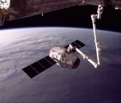 View is provided by a camera on the external truss of USOS.